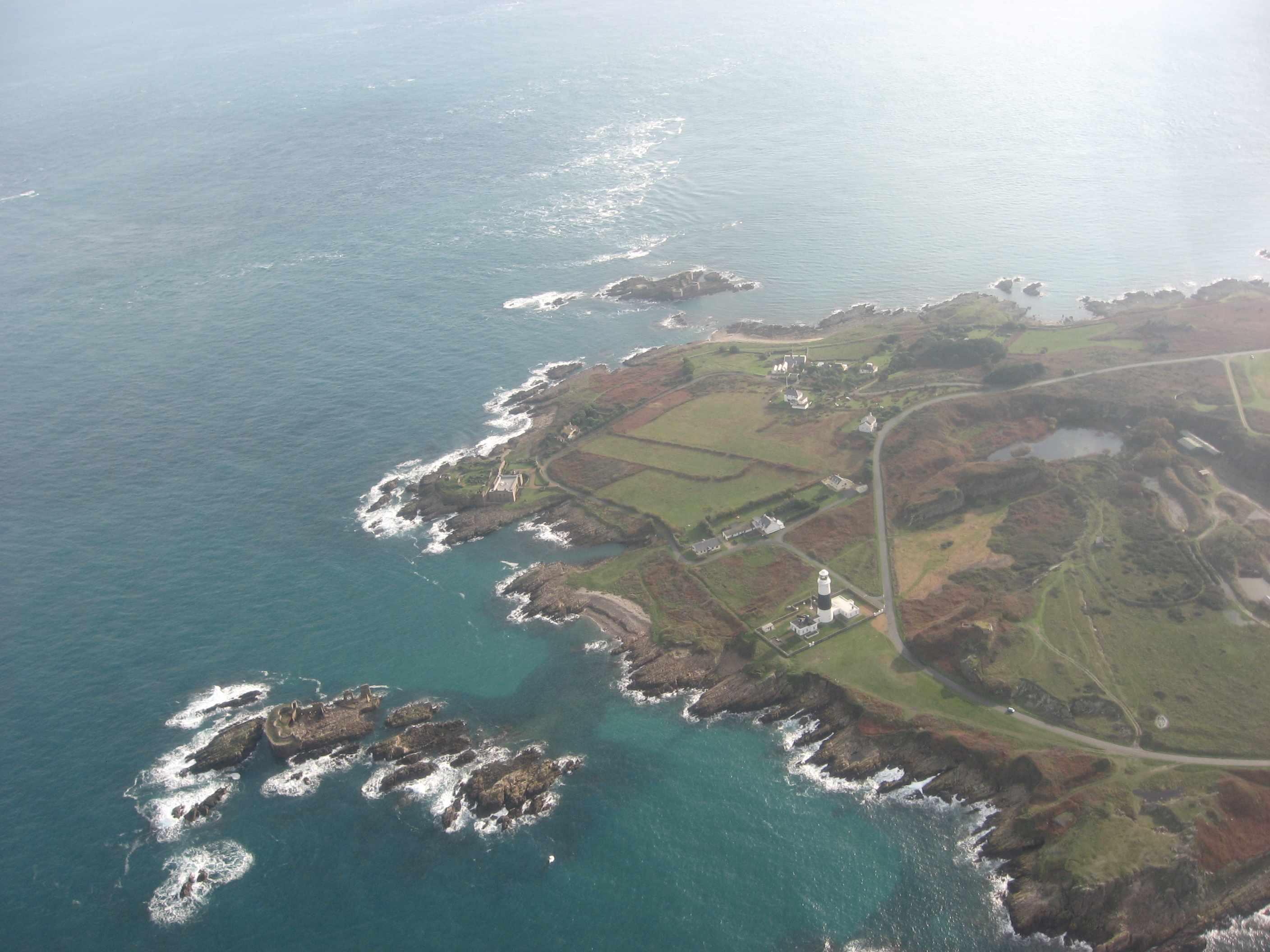 Aerial photo of Alderney.